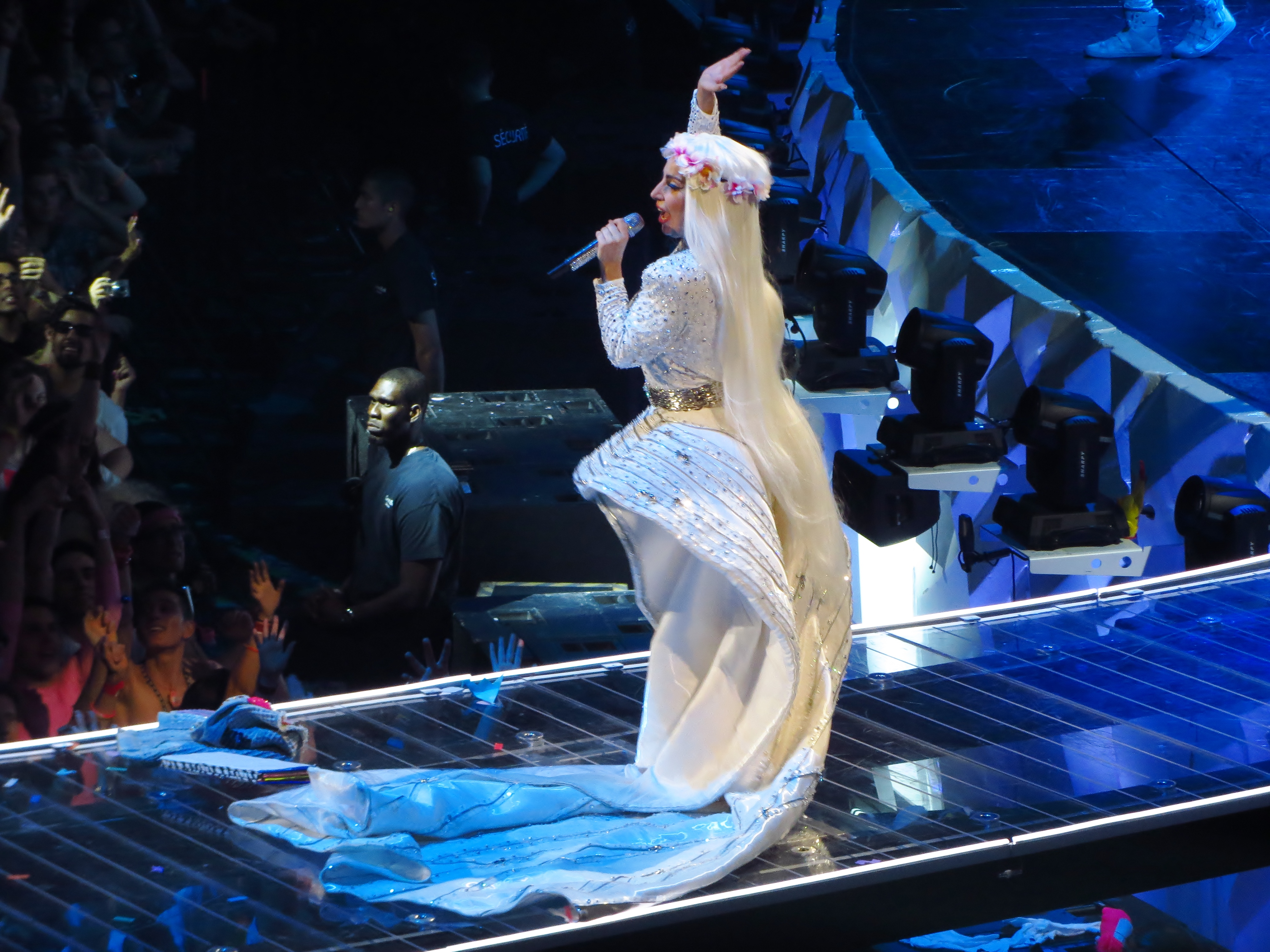 Lady Gaga, ARTPOP Ball Tour, Bell Center, Montréal, 2 July 2014 (128) Gaga performing on ArtRave: The Artpop Ball tour